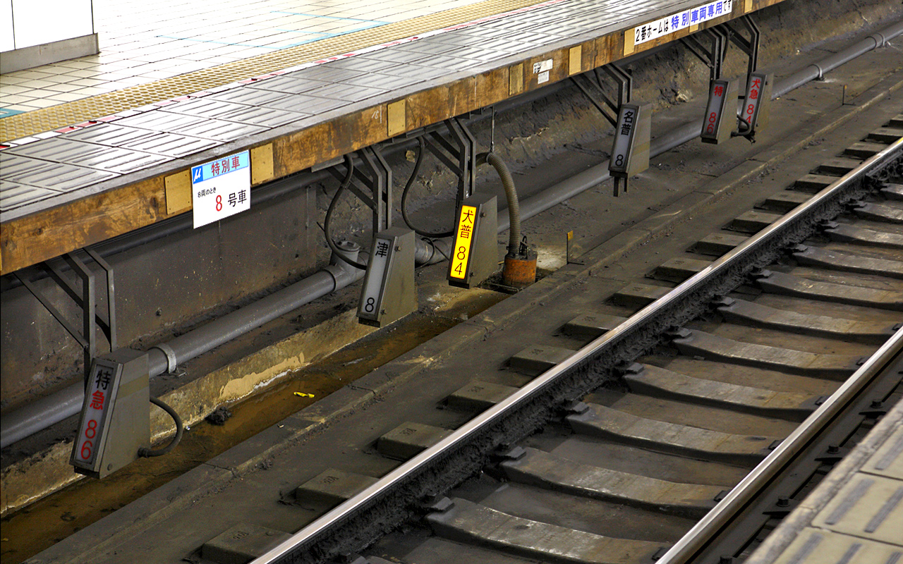 Meitetsu Nagoya Station